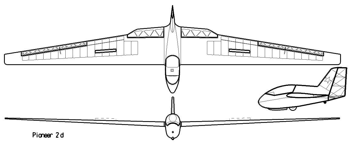 Marske Pioneer 2d